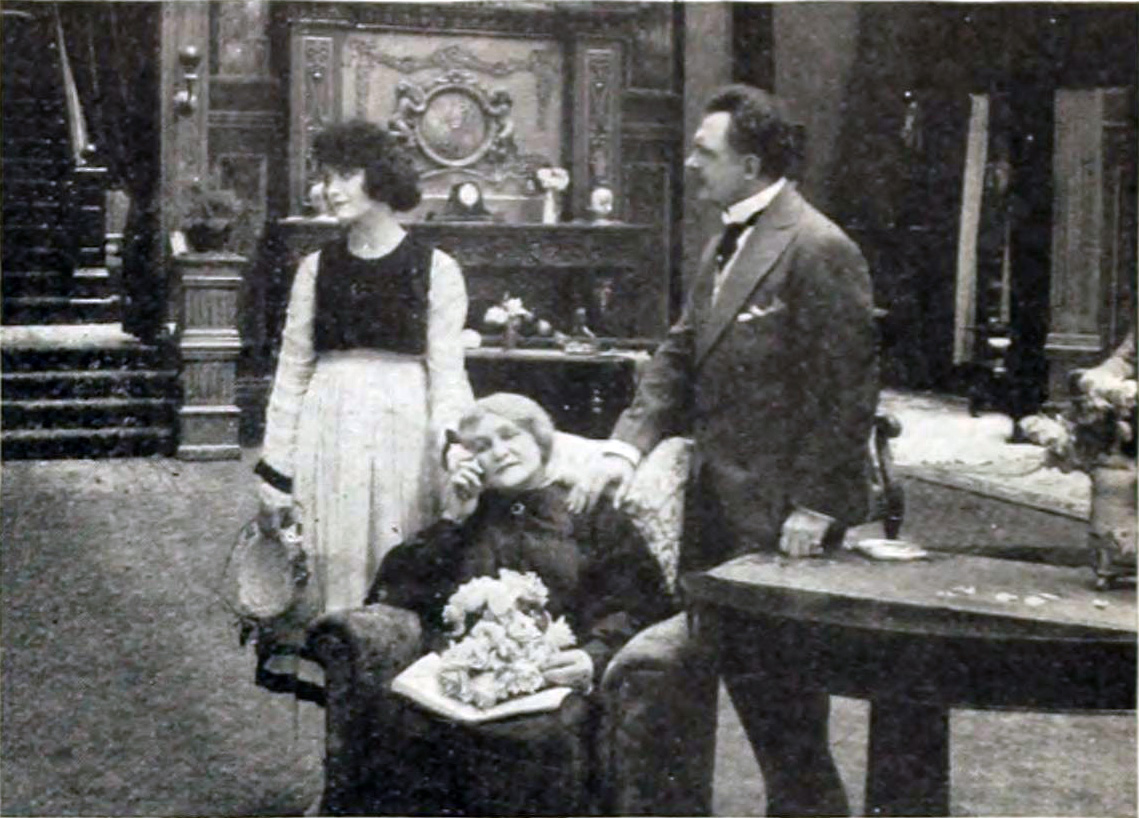 Illustration of a review in The Moving Picture World of The Gentle Conspiracy (1916).